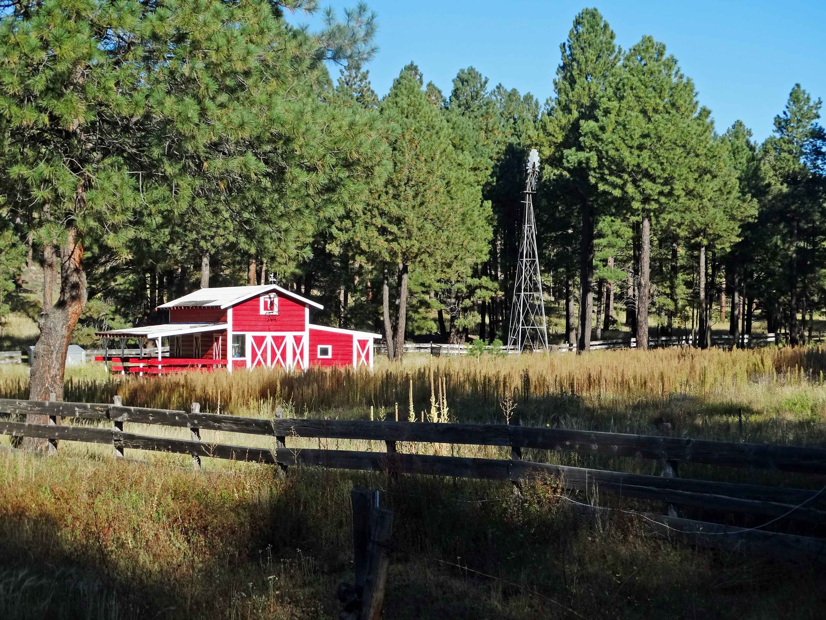 (1 in a multiple picture album) I've shot this ranch before. It is on the 89a highway between Flagstaff to Oak Creek Canyon, just before you begin your descent. This day the sun was just right. It seemed to be spotlighting the well kept barn.